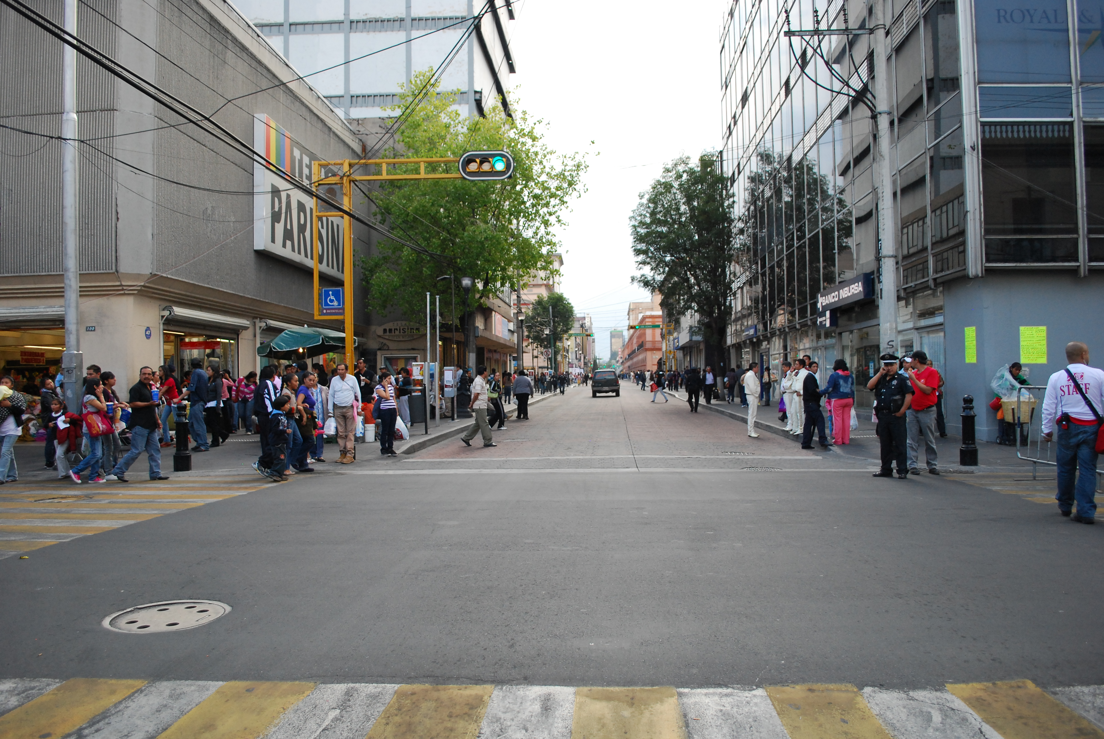 View of Hidalgo Street in downtown Toluca, Mexico State, Mexico